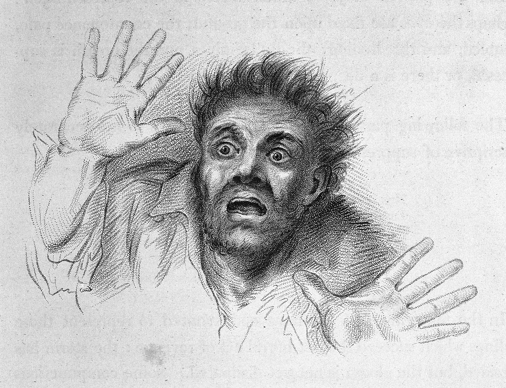 BELL, Sir Charles {1774-1842} Charles Bell, Essays on the anatomy of expression in painting, London: Longman, 1806. Page 142 - Wonder / Fear / Astonishment. Rare Books Keywords: Psychiatry; bell, sir charles {1774-1842}; epb